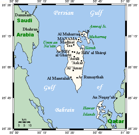 A map showing Bahrain with nearby areas.